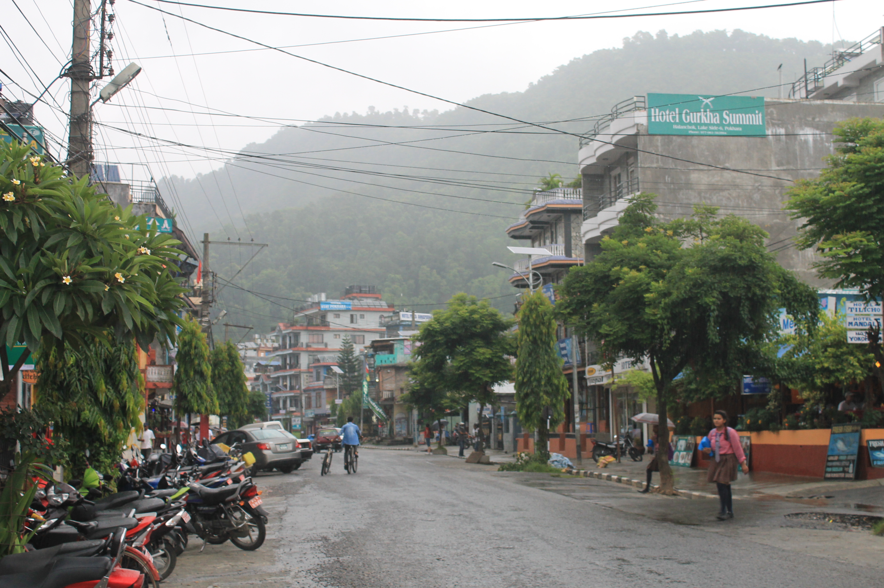 Lakeside, Pokhara.